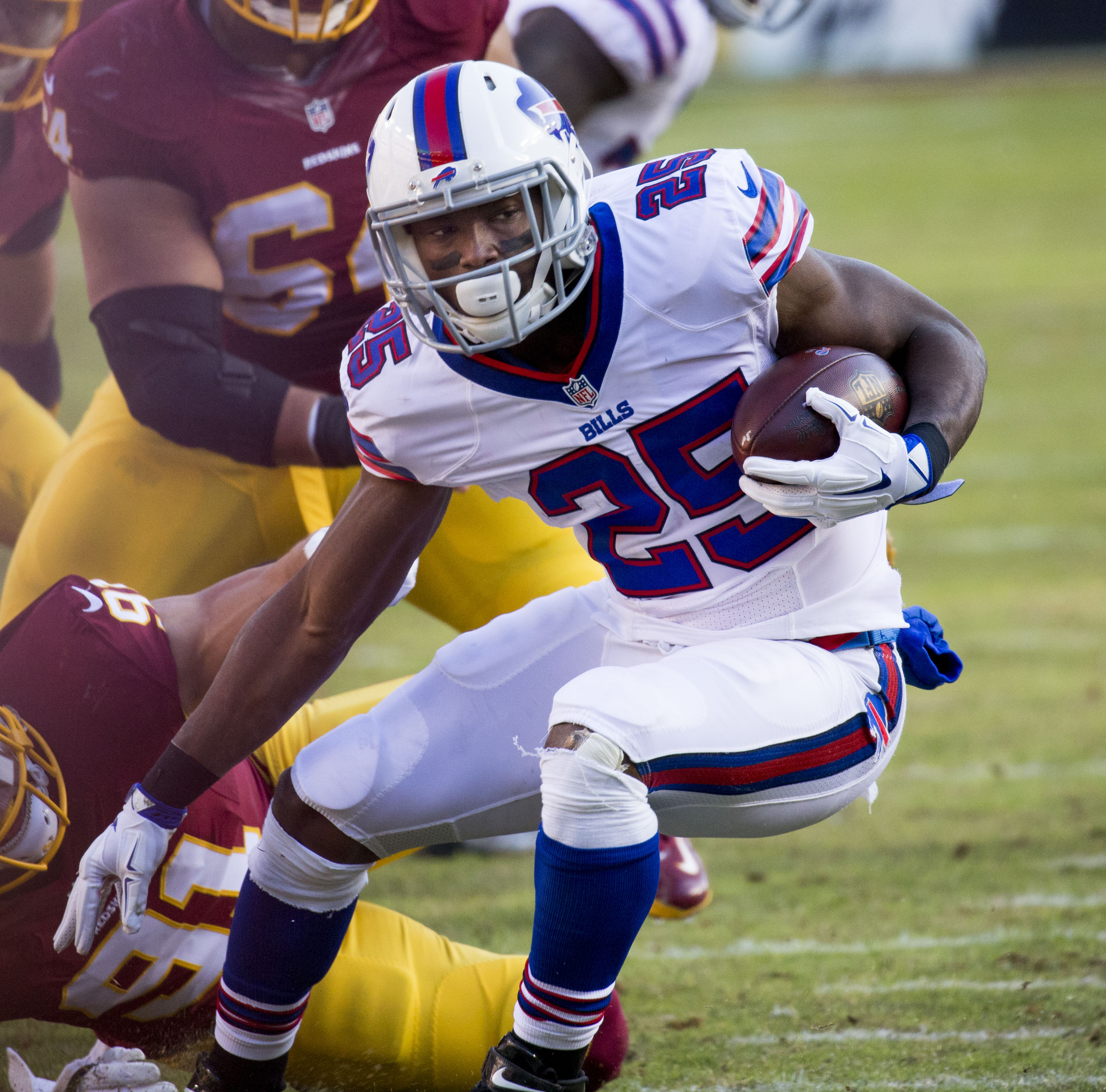 Bills at Redskins 12/20/15